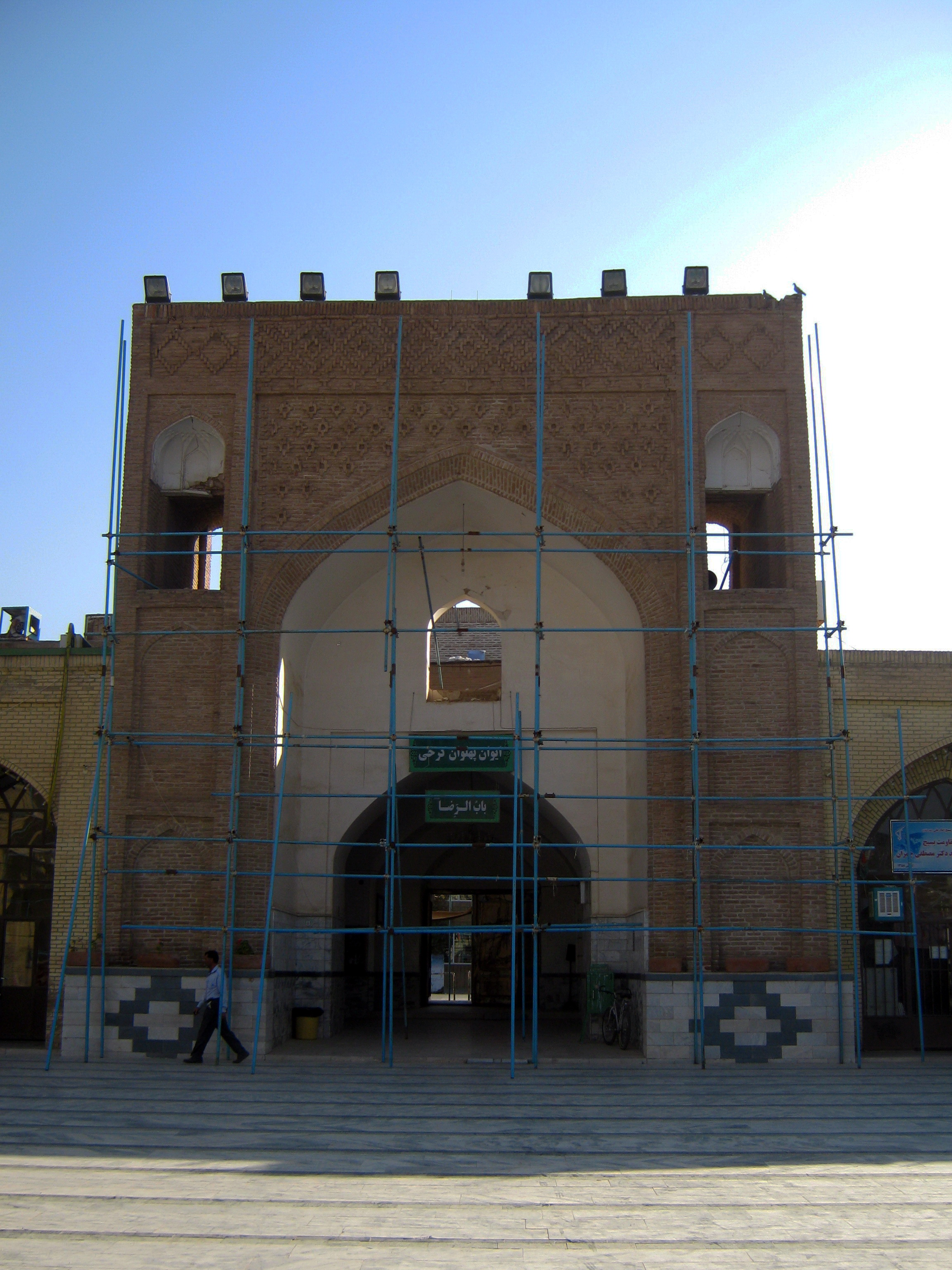 Ali Karkhi Iwan - Northern Portal of Nishapur Jameh Mosque